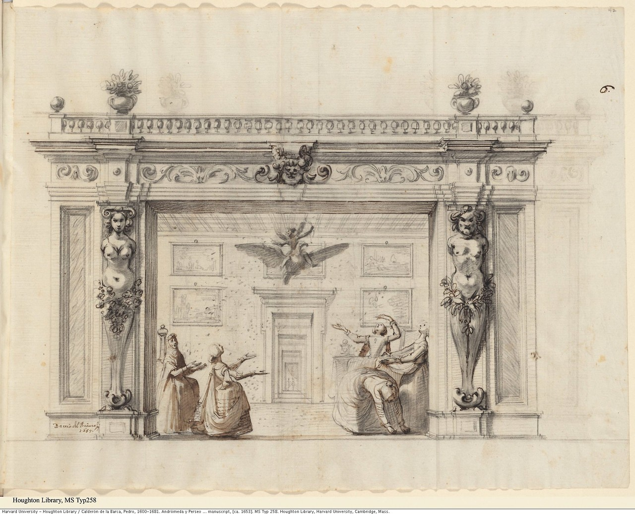 Ilustración para Andrómeda y Perseo de Pedro Calderón de la Barca; fábula representada en el Coliseo del Real Palacio de Buen Retiro. Abajo a la izquierda puede leerse: Baccio dei Bianco 1653. Houghton Library de la Universidad de Harvard.